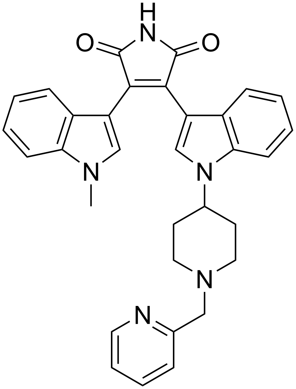 chemical structure of enzastaurin